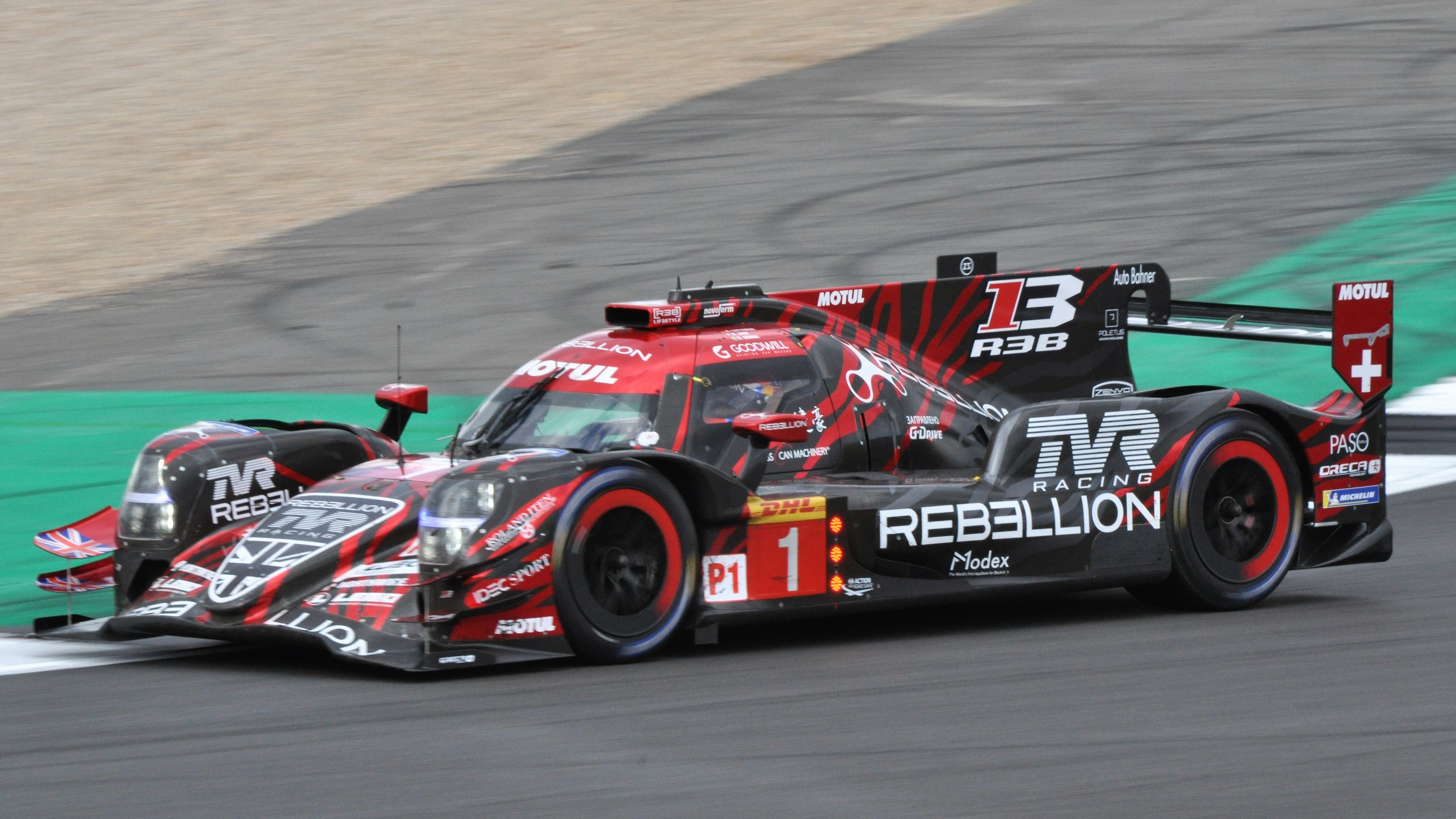 Swiss driver Neel Jani enters Club corner in the number 1 works Rebellion R13 car, during the 2018 6 Hours of Silverstone race. Jani and his co-driver, André Lotterer, drove without third driver Bruno Senna after the latter suffered a broken ankle in a crash during practice. Despite this, Jani and Lotterer finished in second position.